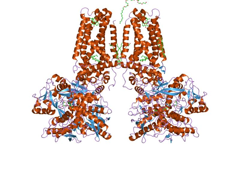 Cartoon representation of the molecular structure of protein registered with 1l0v code.